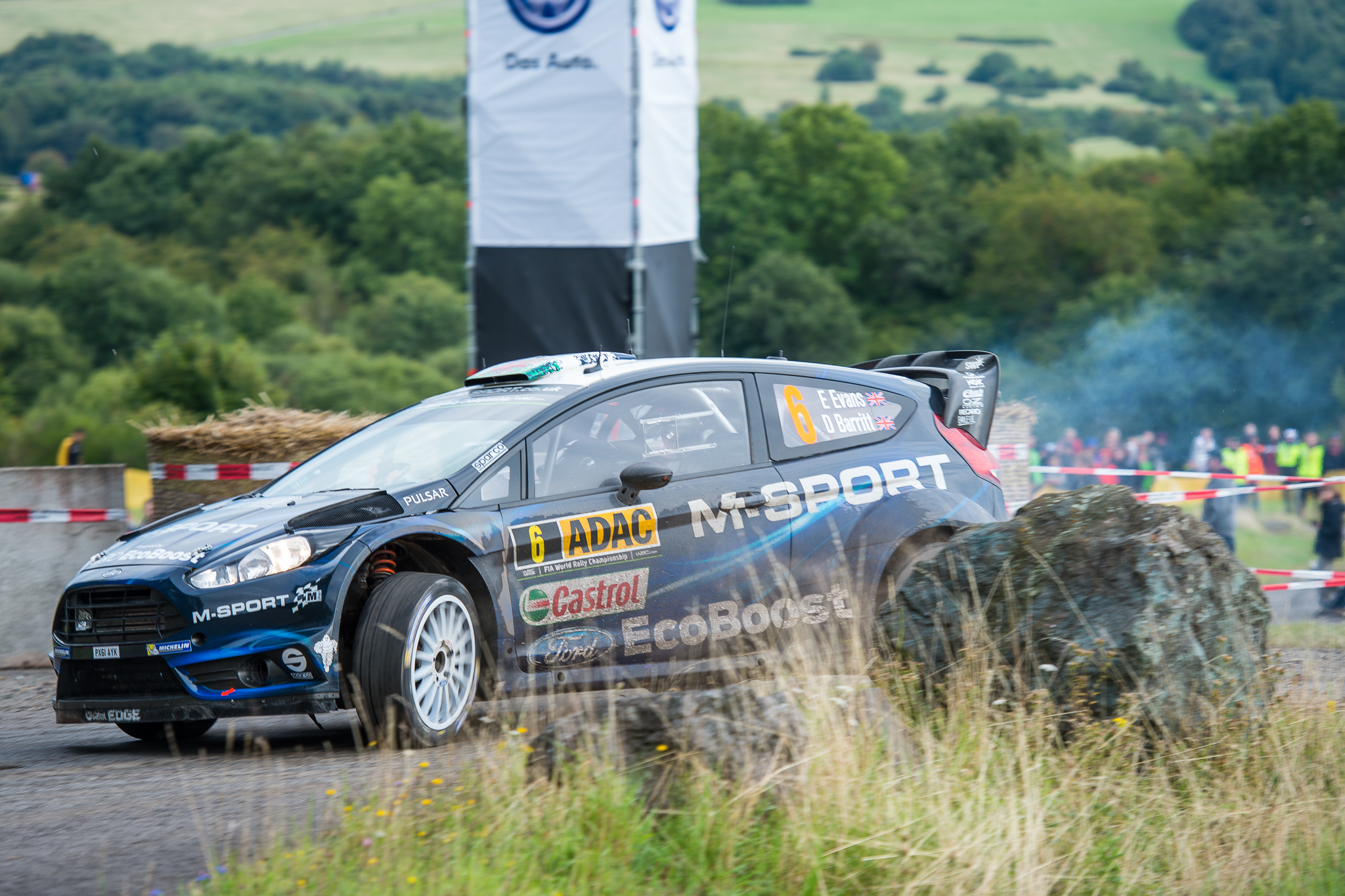 ADAC Rallye Deutschland 2014,Daniel Barritt,Elfyn Evans,FIA,FIA World Rally Championship,Ford Fiesta RS WRC,M-Sport WRT,M-Sport World Rally Team,Motorsport,Panzerplatte,Rally,Rallye,SS15,WP15,WRC